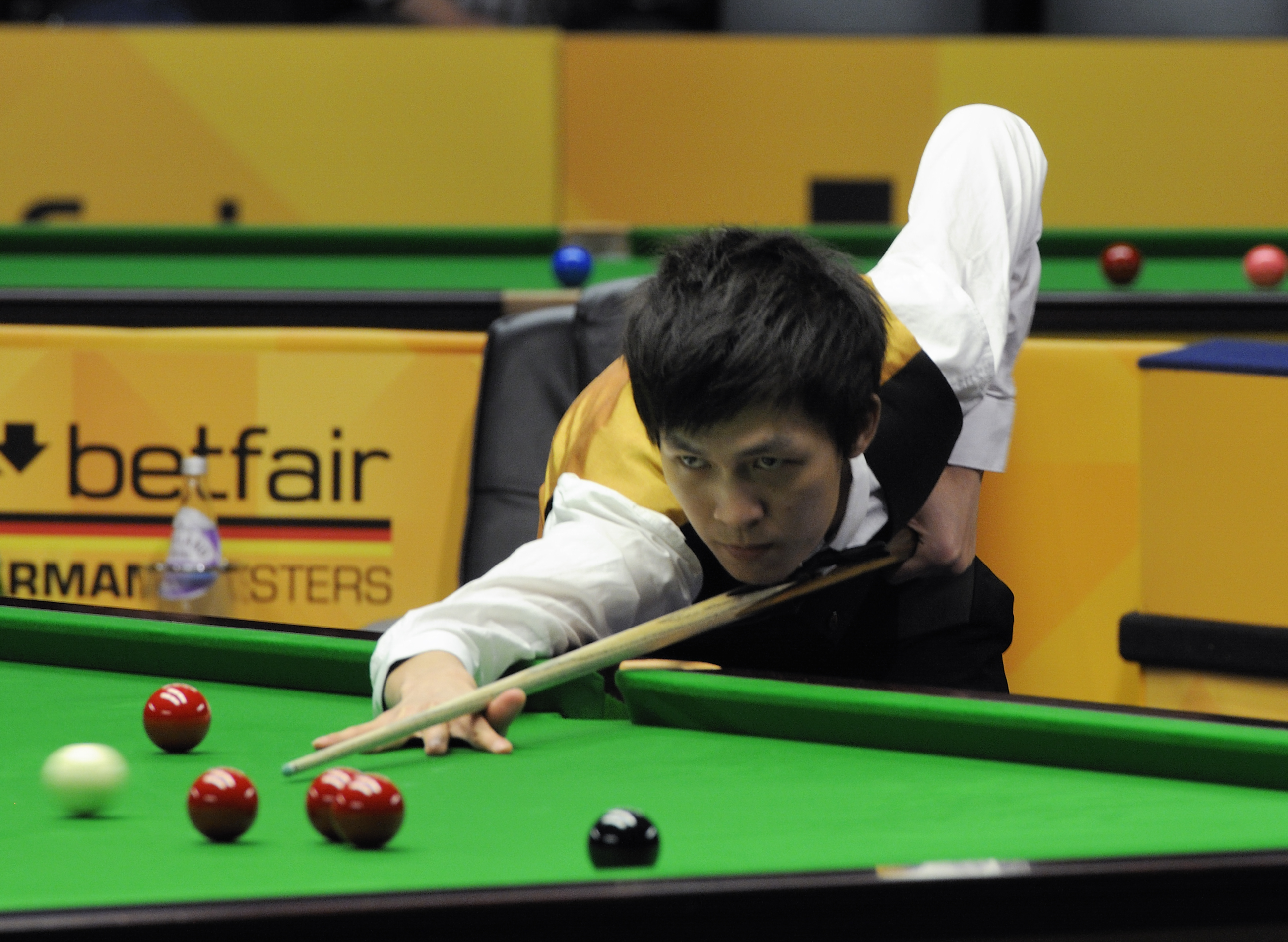 Picture taken in Berlin during the Snooker German Masters in 2013. Thepchaiya Un-Nooh.